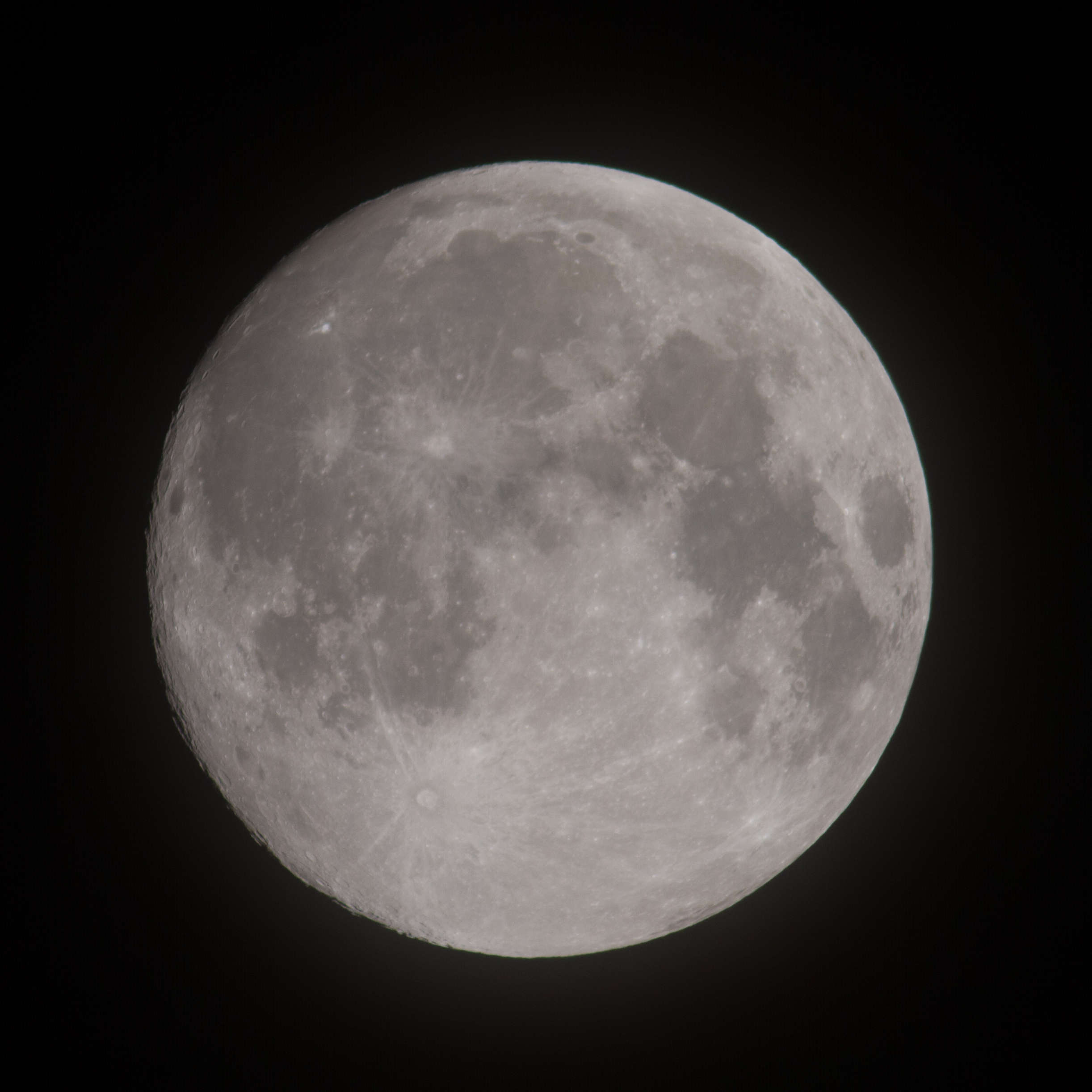 I did an image quality test of toilet paper lens and L lens. I know the result before I did, but the result is still interesting. Toilet paper lens only cost you about 26,000 JPY while 400mm f/5.6L cost you 153,000 JPS and Extender 2x III cost you 42,000 JPY, both of them cost you 195,000 JPY. The toilet paper is losing on image quality but it is still acceptable if you consider the price. 満月でトイレットペーパーレンズとLレンズの解像力テストをやってみた。結果は事前にわかってたけれど、面白い結果になった。トイレットペーパーレンズは実売およそ2万6000円、一方で400mm F5.6Lは15万3000円、エクステンダー2x IIIは4万2000円の合計19万5000円。もちろんトイレットペーパーレンズの方が解像力は低いけれど、2/15のお値段でこれだけ健闘しているのも結構すごいかも。 [ Canon EOS 7D, Canon EF 400mm f/5.6L USM, 800mm, f/11.0, 1/40sec, ISO100, Canon Extender EF 2xIII, Lightroom 5, Tripod ]